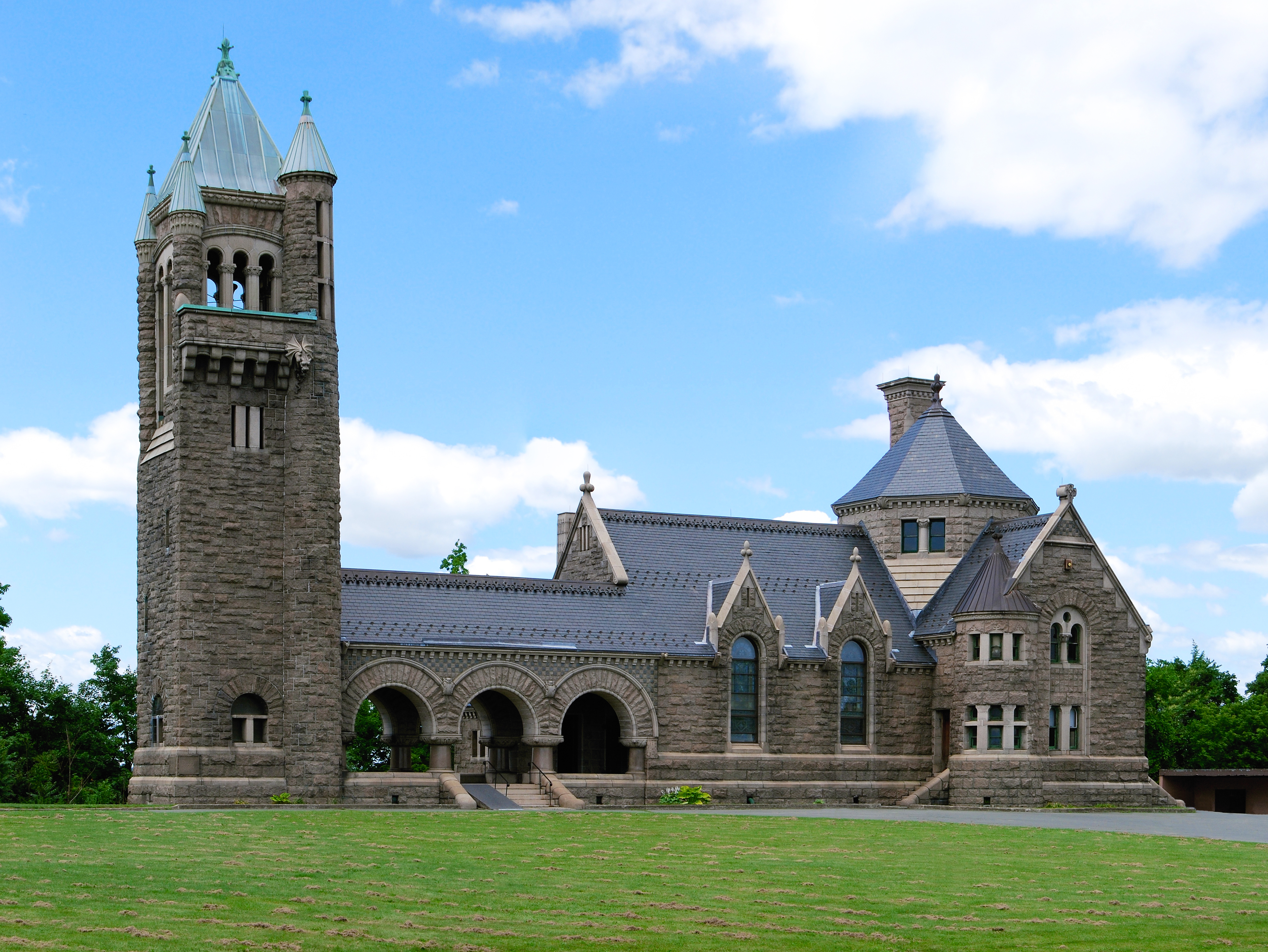 The Gardner Earl Memorial Chapel and Crematorium, a Richardsonian Romanesque structure built between 1887 and 1889 at Oakwood Cemetery in Troy, New York, United States. The building was financed by William S. Earl, a successful Troy manufacturer, as a memorial to his son who died after becoming ill on a trip to Europe in March 1887. The deceased Earl was an early promoter of cremation and was himself cremated in Buffalo.